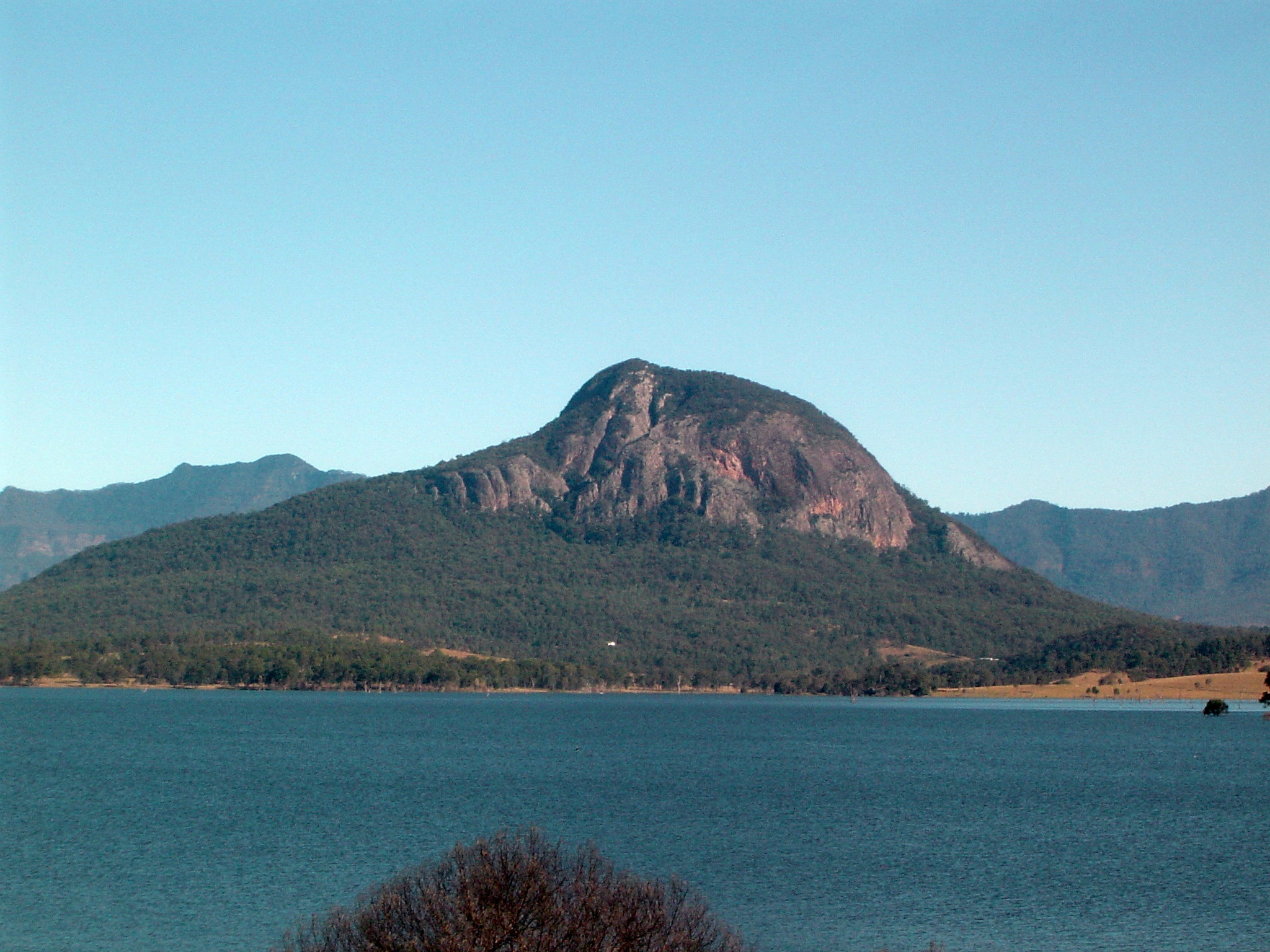 Mount Greville viewed from Lake Moogerah picnic area